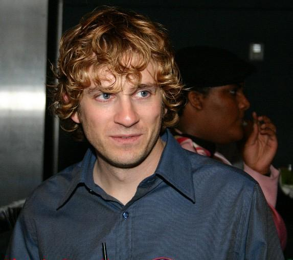 American actor Tom Lenk at a fundraiser for John Kerry and John Edwards.